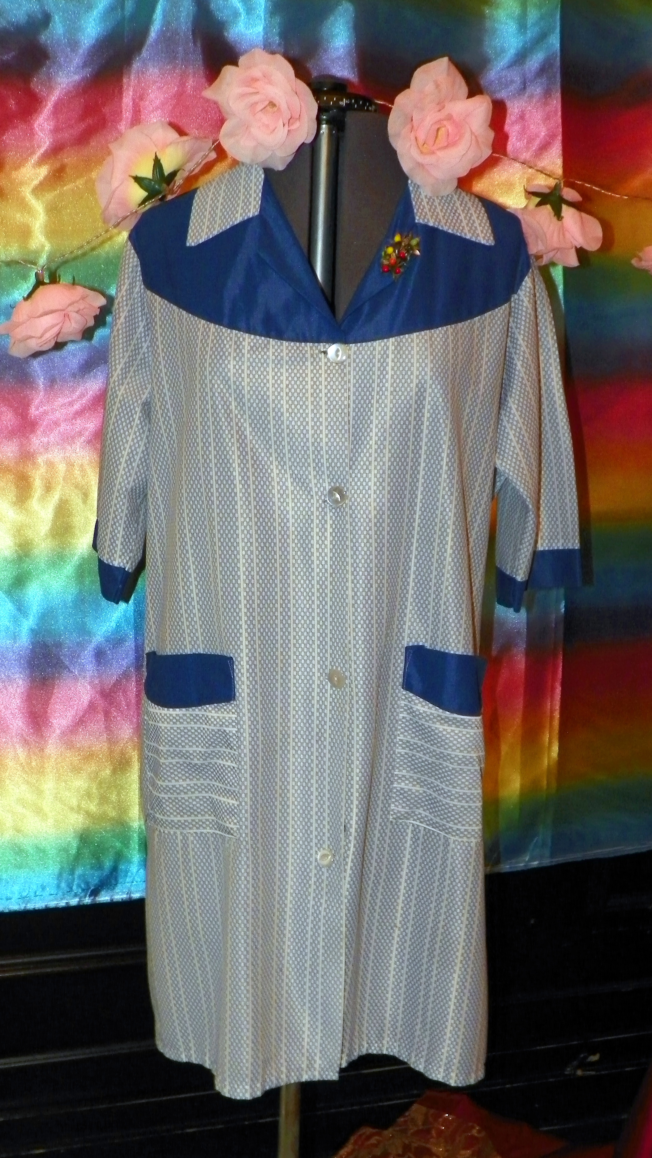 The launderette uniform worn by the character Dot Cotton in EastEnders, played by June Brown, on display at the EastEnders Meet and Greet event.